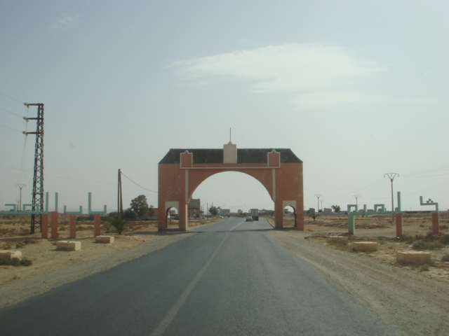 Guelmim also spelled in European sources: Glaimim, Goulimine or Guelmin), is a city in southern Morocco, often called "Gateway to the Desert" (la porte du désert).